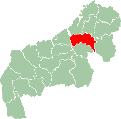 Location map of Boriziny region in Mahajanga province.